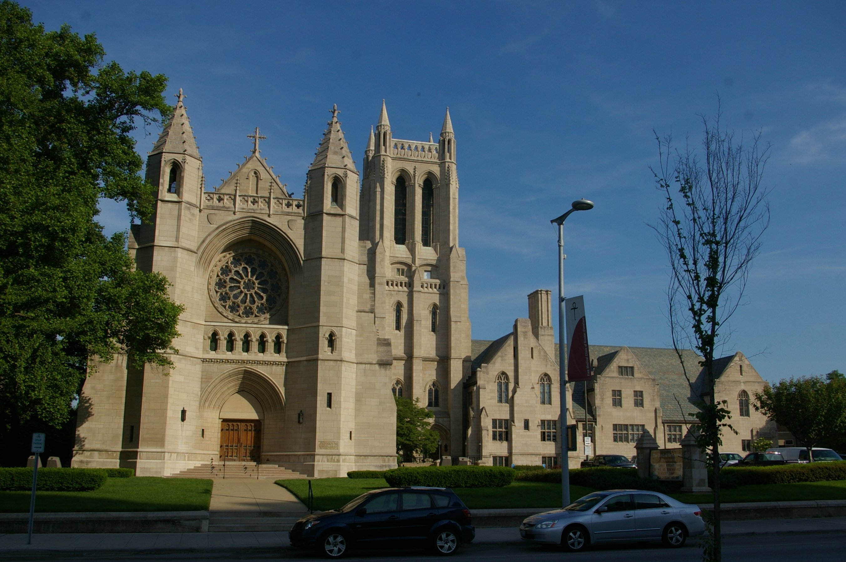 A view of the Euclid Avenue Presbyterian Church at 11205 Euclid Avenue, in Cleveland, Ohio. The structure, built in 1909, was designed by Cram and Ferguson, architects. It is listed on the National Register of Historic Places.